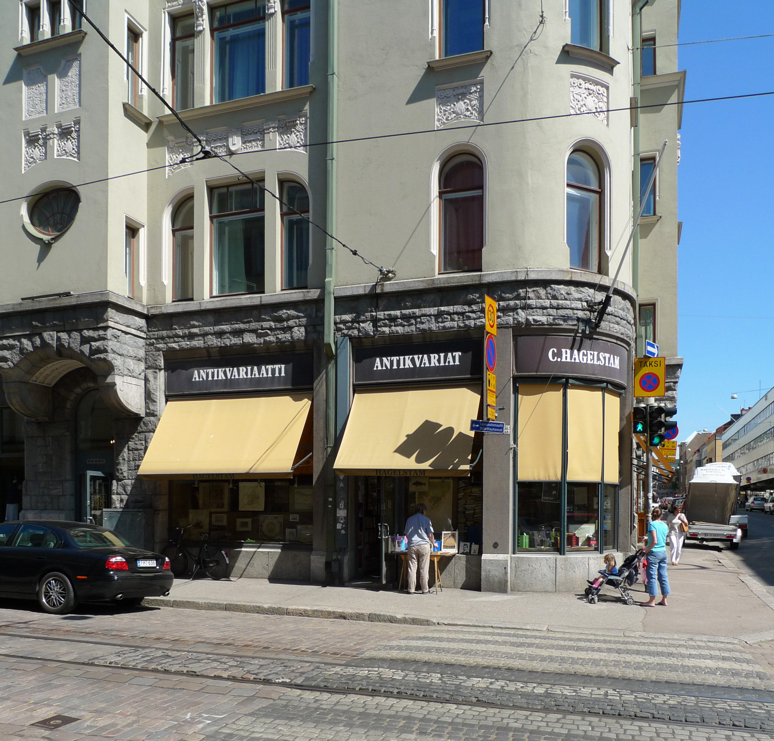 Fredrikinkatu 35, Helsinki